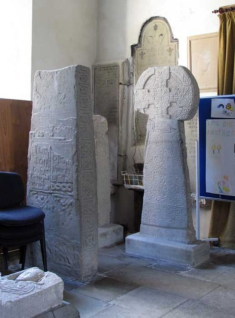 St Illtud, Llantwit Major, Glamorgan, Wales - Celtic cross